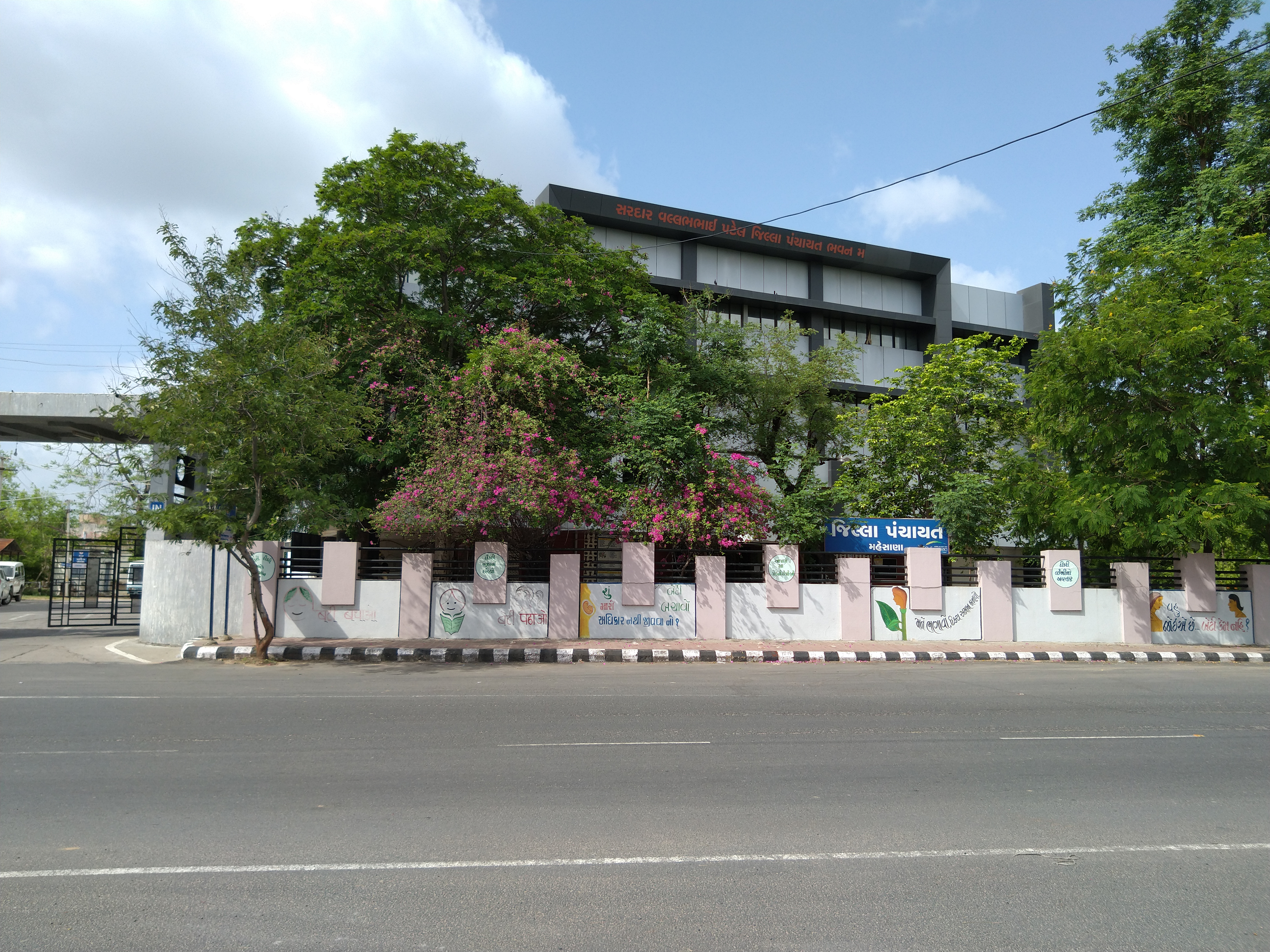 Mehsana District Panchayat Office